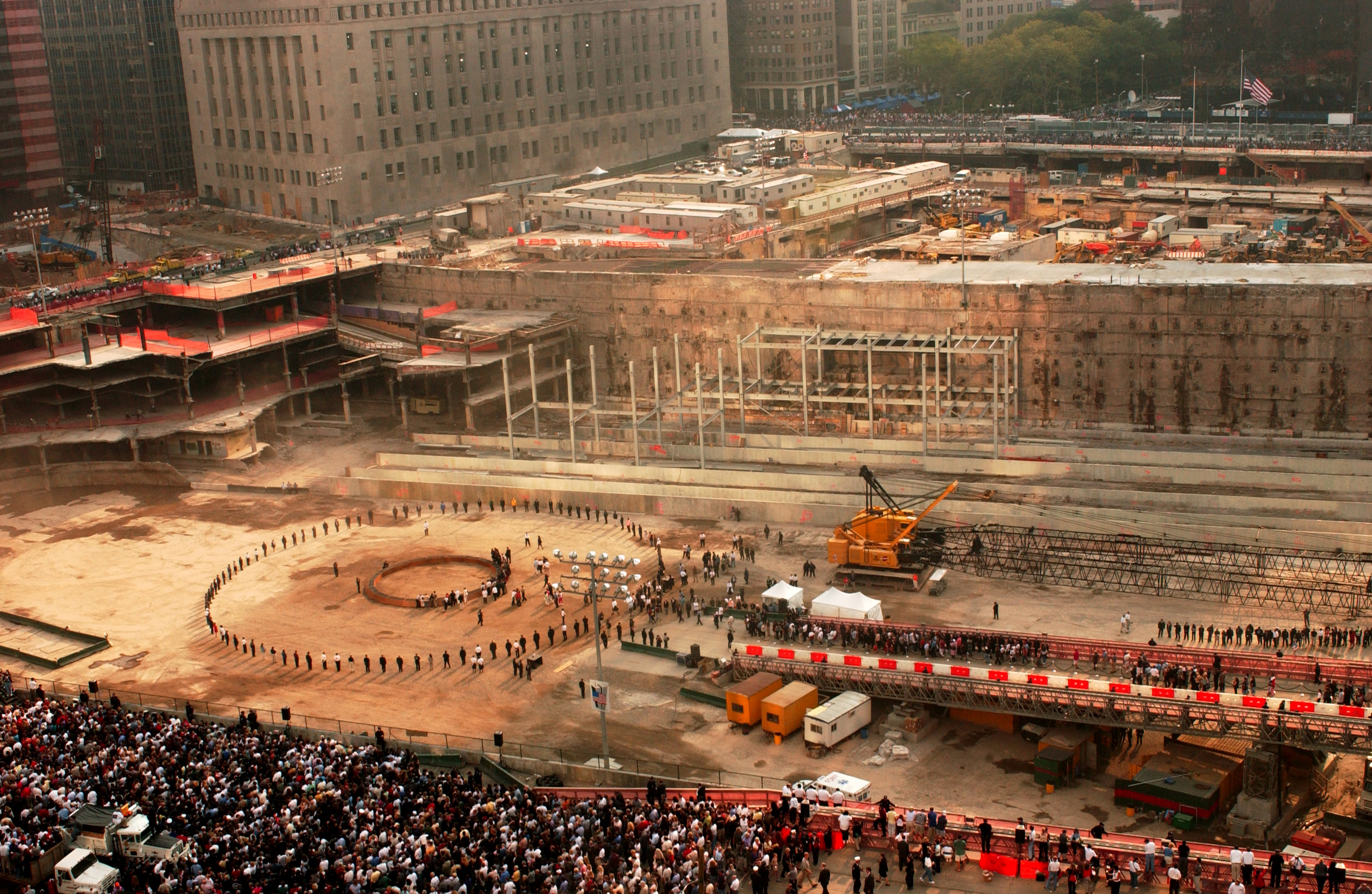 New York City, NY, September 11, 2002 -- People from all over the world come to New York for an observance ceremony for the one year anniversary of 9/11. Photo by Andrea Booher/FEMA News Photo